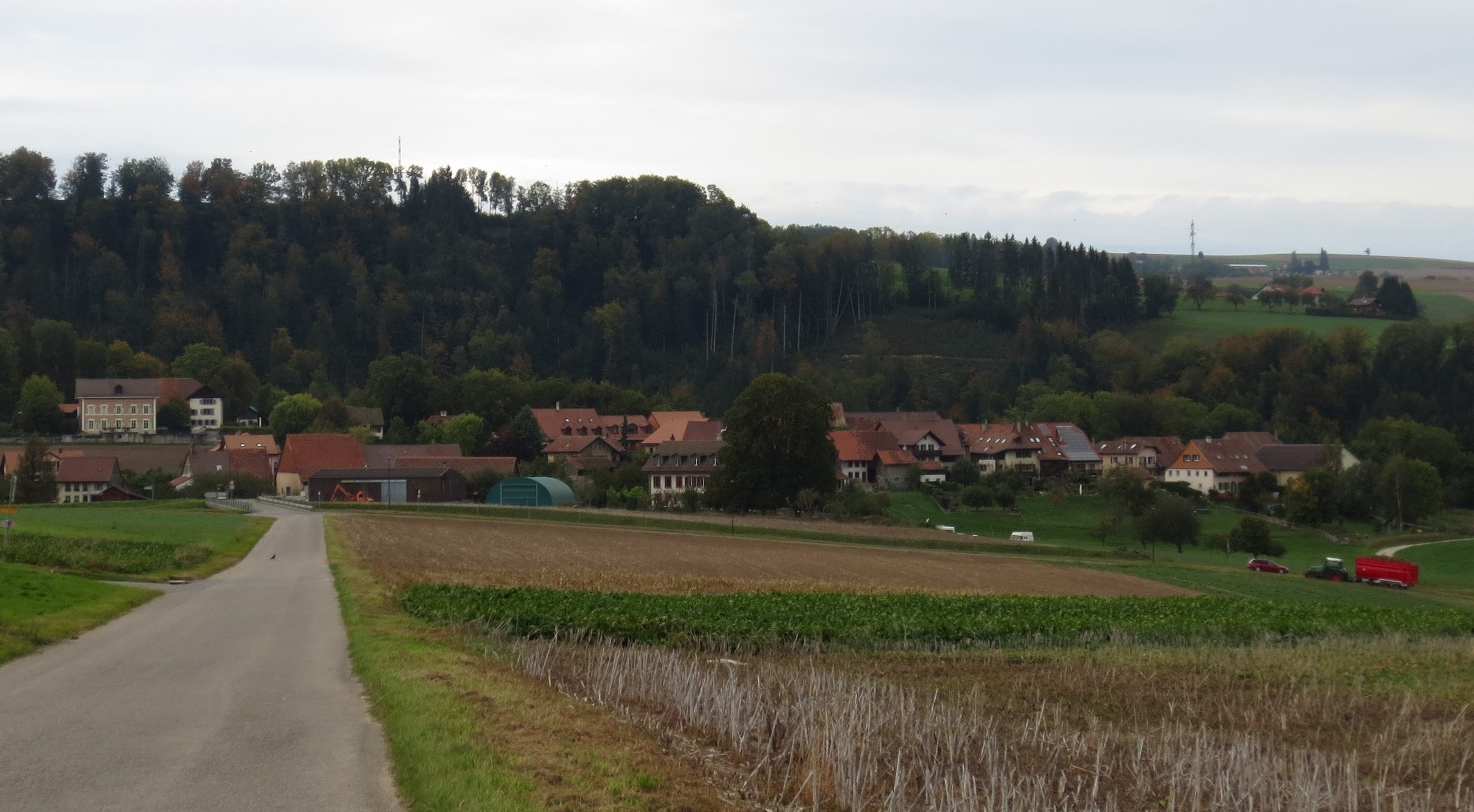 Syens, Canton of Vaud, Switzerland